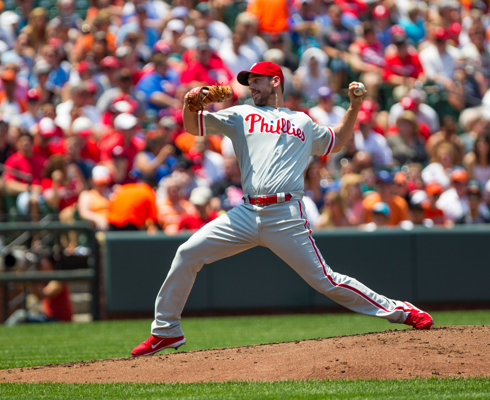 Philadelphia Phillies starting pitcher Cliff Lee (33) in a game against the Baltimore Orioles at Oriole Park at Camden Yards on June 10, 2012.